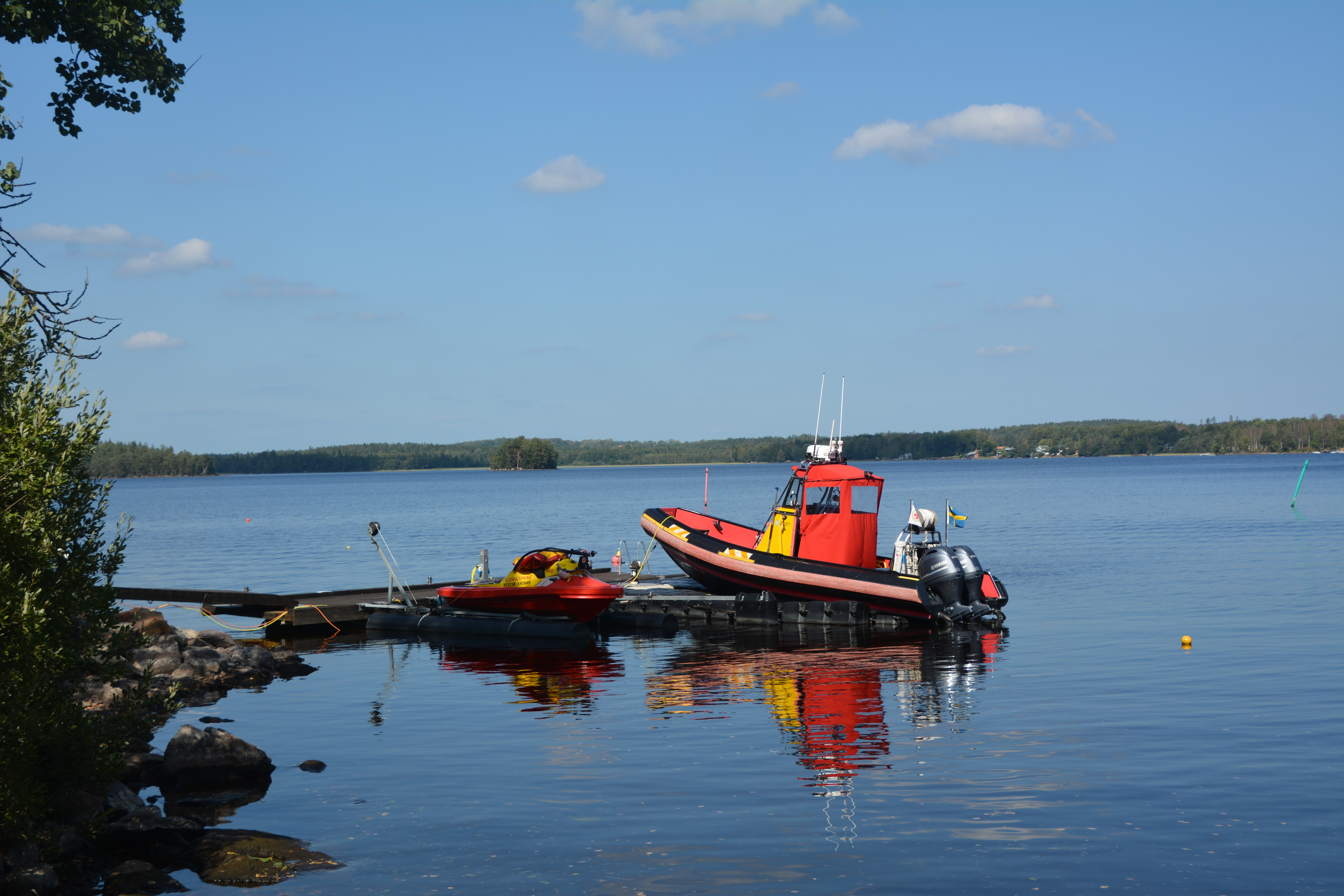 Räddningsstation Kronoberg Helgasjön